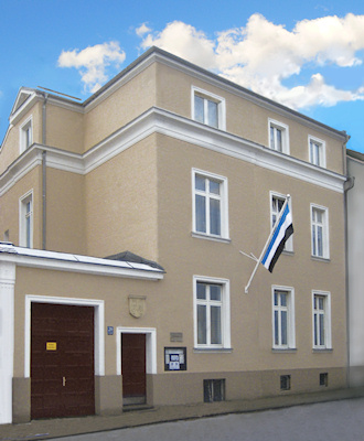 House of the German fraternity K.S.St.V. Alemannia Muenchen